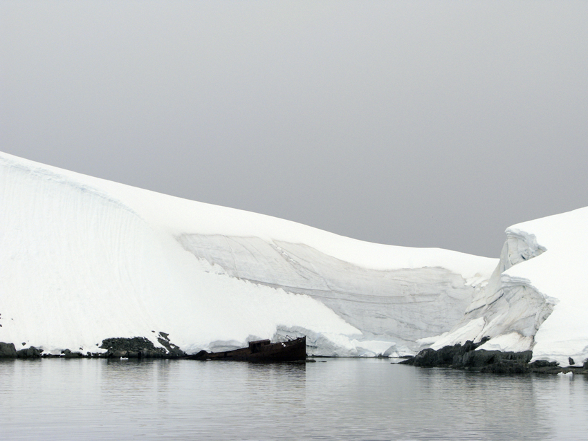 Entreprise island, Antarctic peninsula